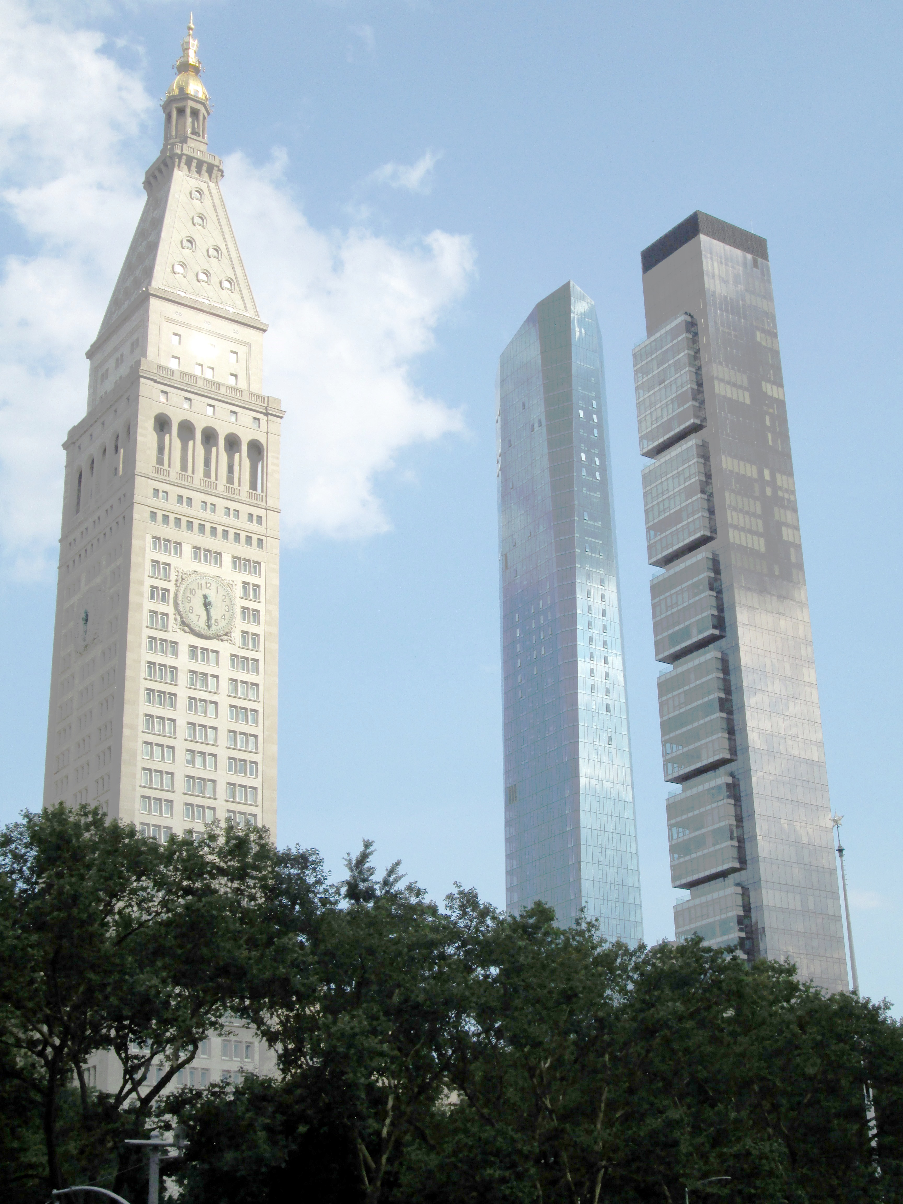 The Metropolitan Life Insurance Company Tower (also Met Life Tower) at One Madison Avenue, New York City was the world's tallest building from 1909 to 1913, when it was surpassed by the Woolworth Building. As the address suggests, it is located at the southern end of Madison Avenue, directly across the street from Madison Square Park. The building is a National Historic Landmark and was first added to the National Register of Historic Places on February 6, 1978. Later, the entire complex of buildings was added to the National Register on January 19, 1996. Madison Square Park Tower, previously 45 East 22nd Street, is, as of July 2017, a topped-out skyscraper located between Broadway and Park Avenue South in the Flatiron District neighborhood of Manhattan New York City. The building was designed by Kohn Pedersen Fox. When completed it will be the tallest building between Midtown and the Manhattan Financial District. It was the second skyscraper to be built on that block, the first being One Madison. One Madison, formerly "One Madison Park", is a luxury residential condominium tower located on 23rd Street between Broadway and Park Avenue South, at the foot of Madison Avenue, across from Madison Square Park in the Flatiron District of Manhattan, New York City. The building's private entrance, and address, will be at 23 East 22nd Street when construction of the lobby building is complete in Spring 2013. To the right of One Madison can be seen the Eternal Light Flagstaff in Madison Square Park, dedicated on Armistice Day 1923 and restored in 2002, which commemorates the return of American soldiers and sailors from World War I.